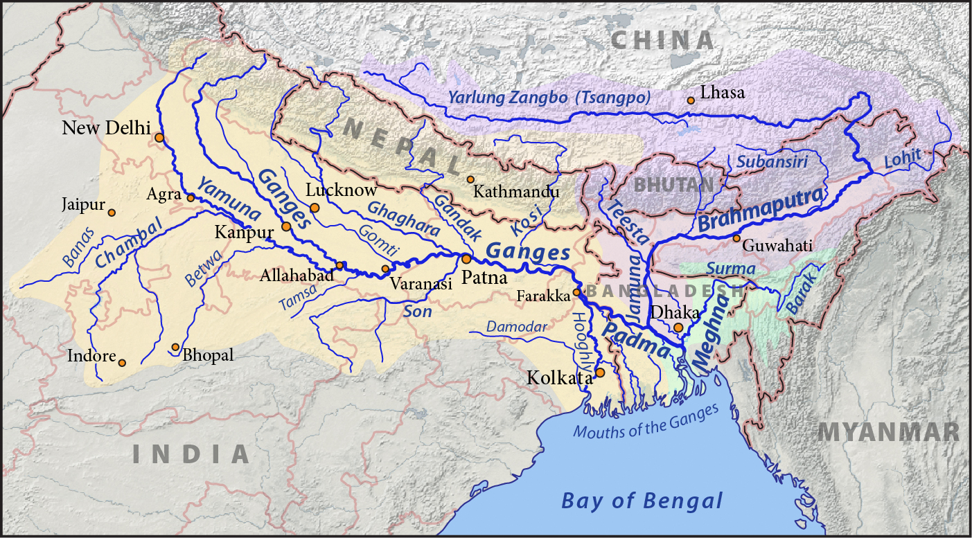 This is a map of the Ganges (yellow), Brahmaputra (violet), and Meghna (green) drainage basins. Created with ArcExplorer and Adobe Illustrator, based on Natural Earth data.